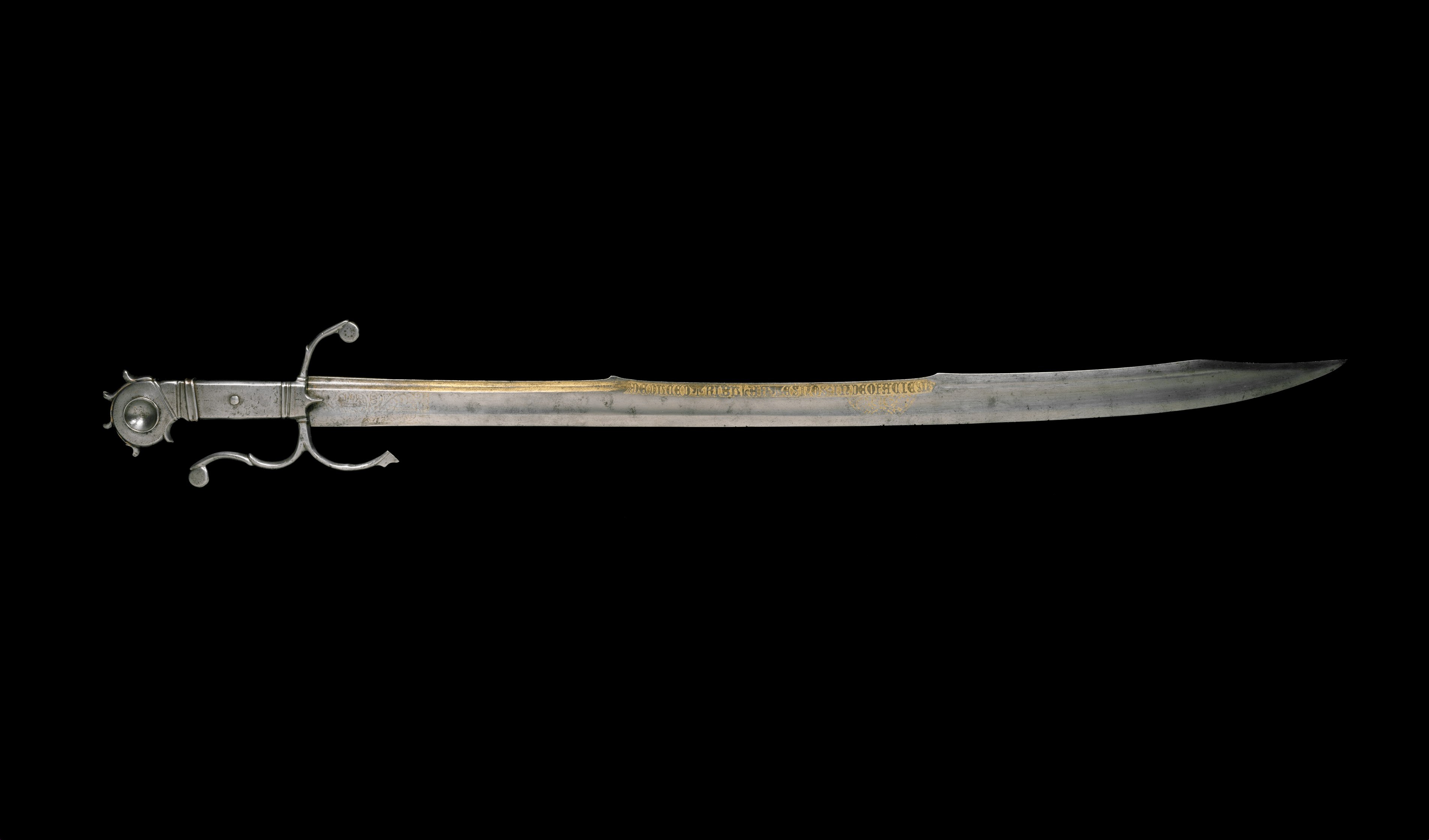 Italian, Venice; Falchion; Swords